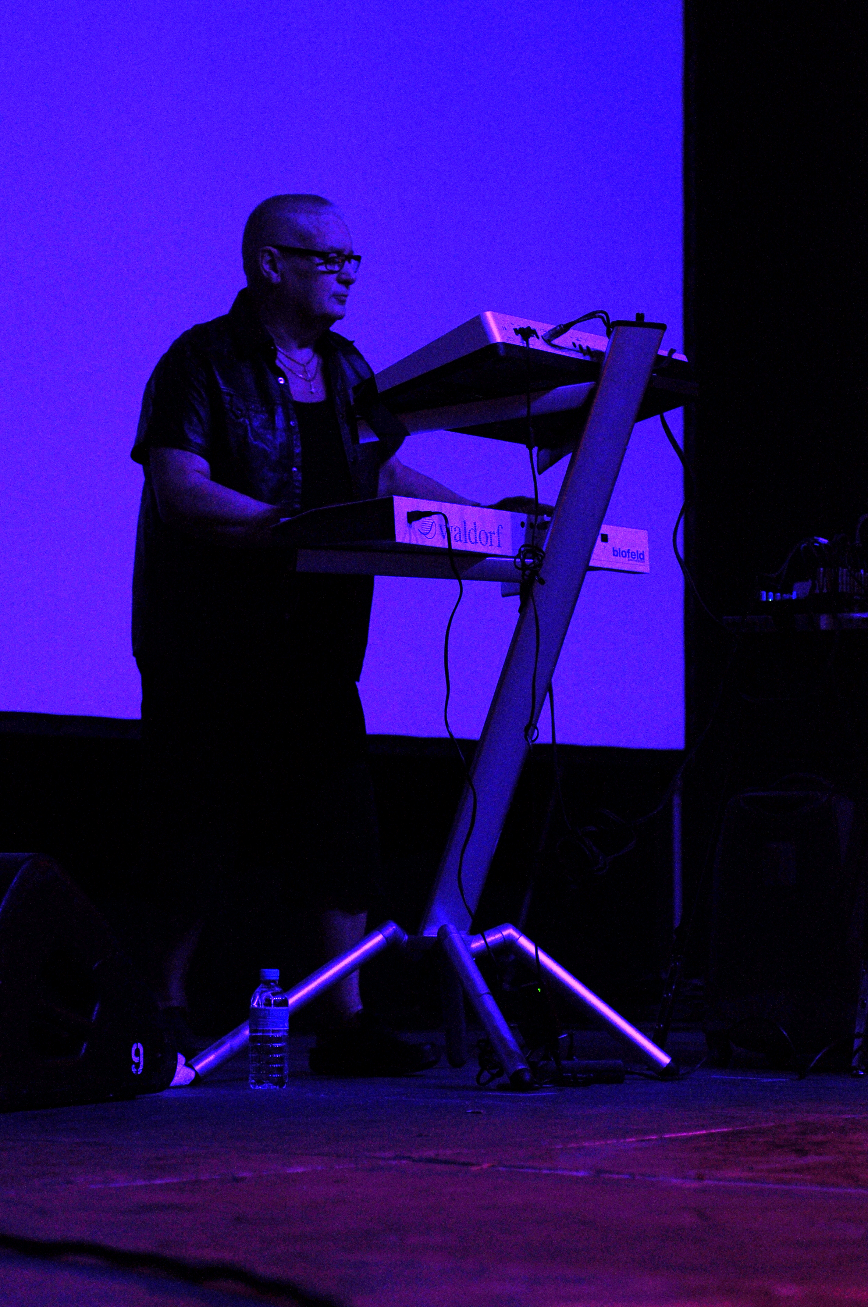 The Band Leæther Strip from Denmark at e-tropolis 2013, Berlin